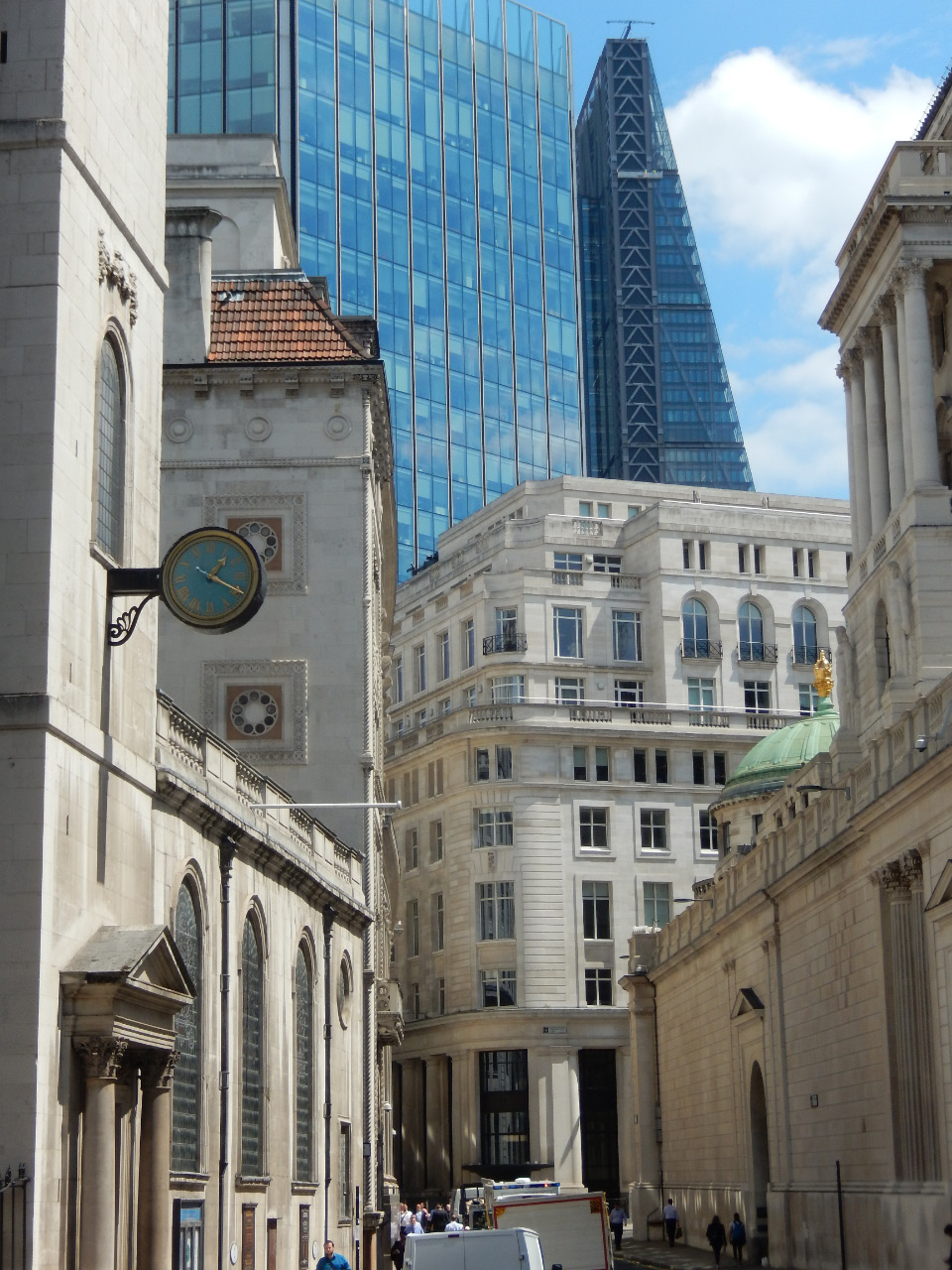 Lothbury, City of London